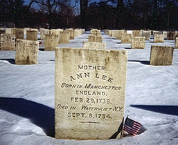 Mother Ann Lee tombstone 2006. Shaker Cemetery, Colonie, Albany County, New York, USA.